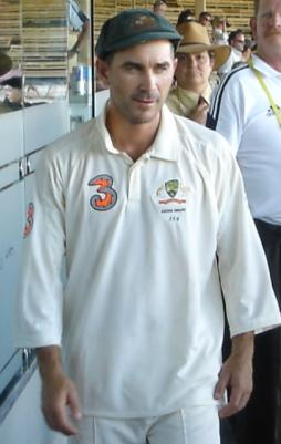 Crop of a photo taken by on Day 5 of the Adelaide Test match in the 2006-07 Ashes series (December 5, 2006). GFDL.